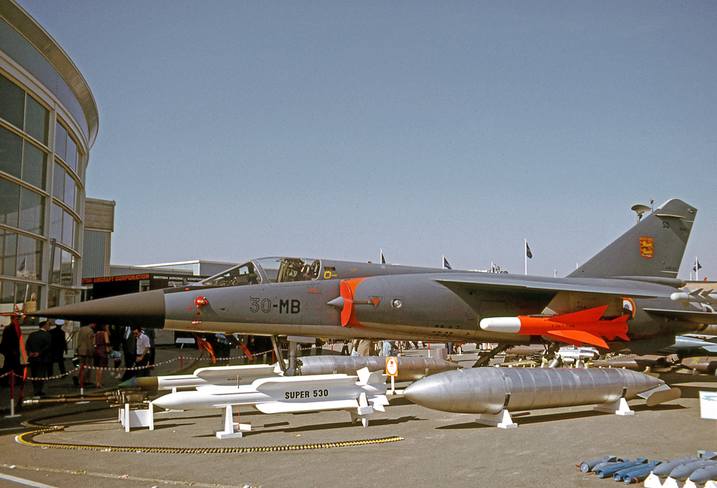 Dassault Mirage F1C No. 50 of EC2/30 Normandie-Niemen at the 1975 Paris Air Show